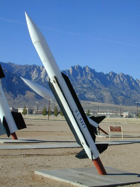 The RIM-24 Tartar missile at the White Sands Missile Range Museum. According to the source: During the 60s this was the smallest Navy surface-to-air missile and was placed on destroyer-type ships and as a secondary battery on larger ships. Testing of this supersonic missile took place at the U.S.S. Desert Ship located at Launch Complex 35 at White Sands.